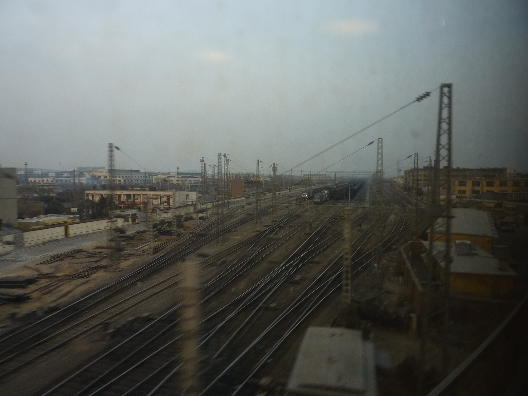 Rail yard in Xuzhou, seen from the Beijing-Shanghai (conventional) railway, just north of the Xuzhou (passenger) stations.